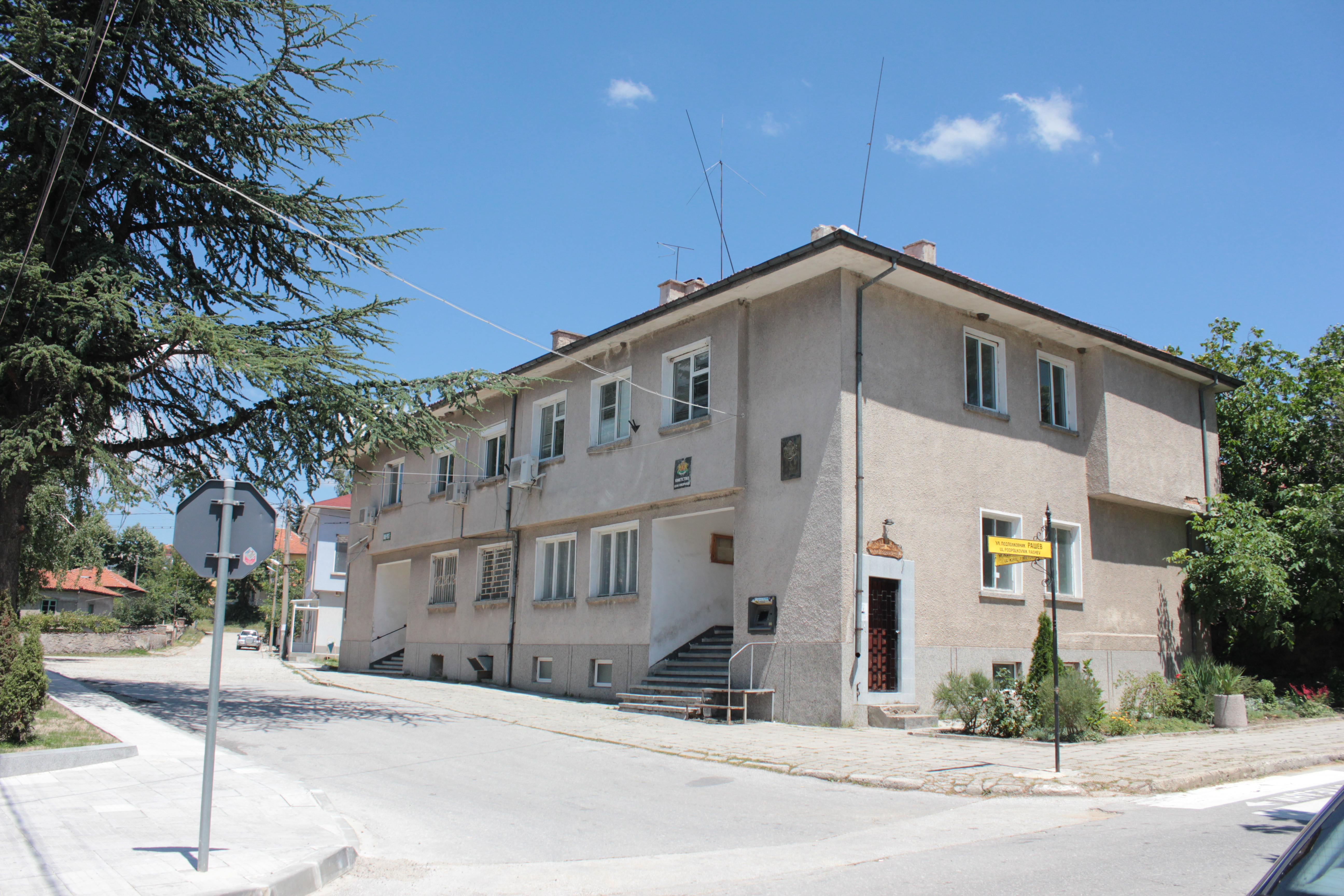 Oborishte village hall